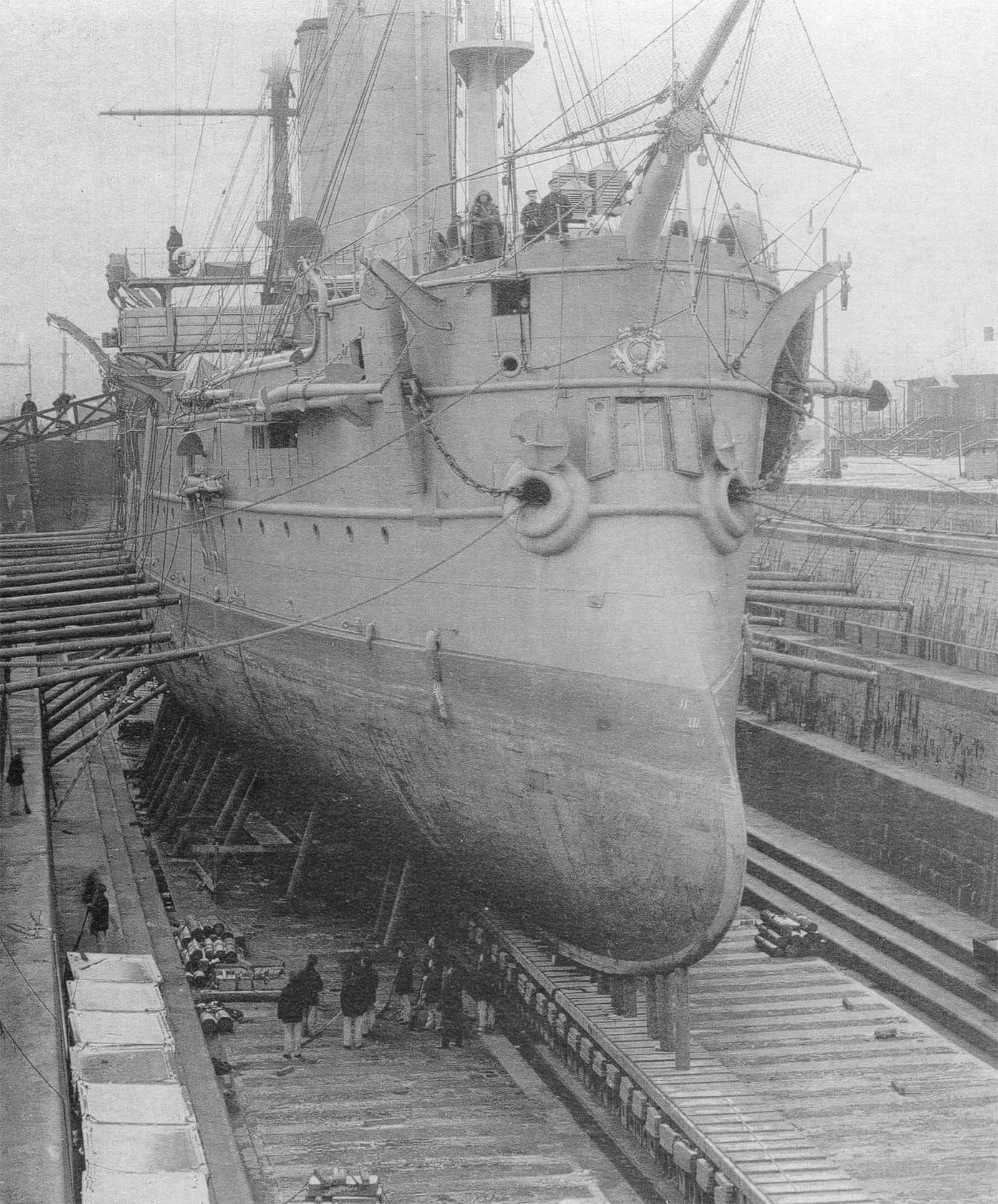 The Imperial Russian training ship Dvina.